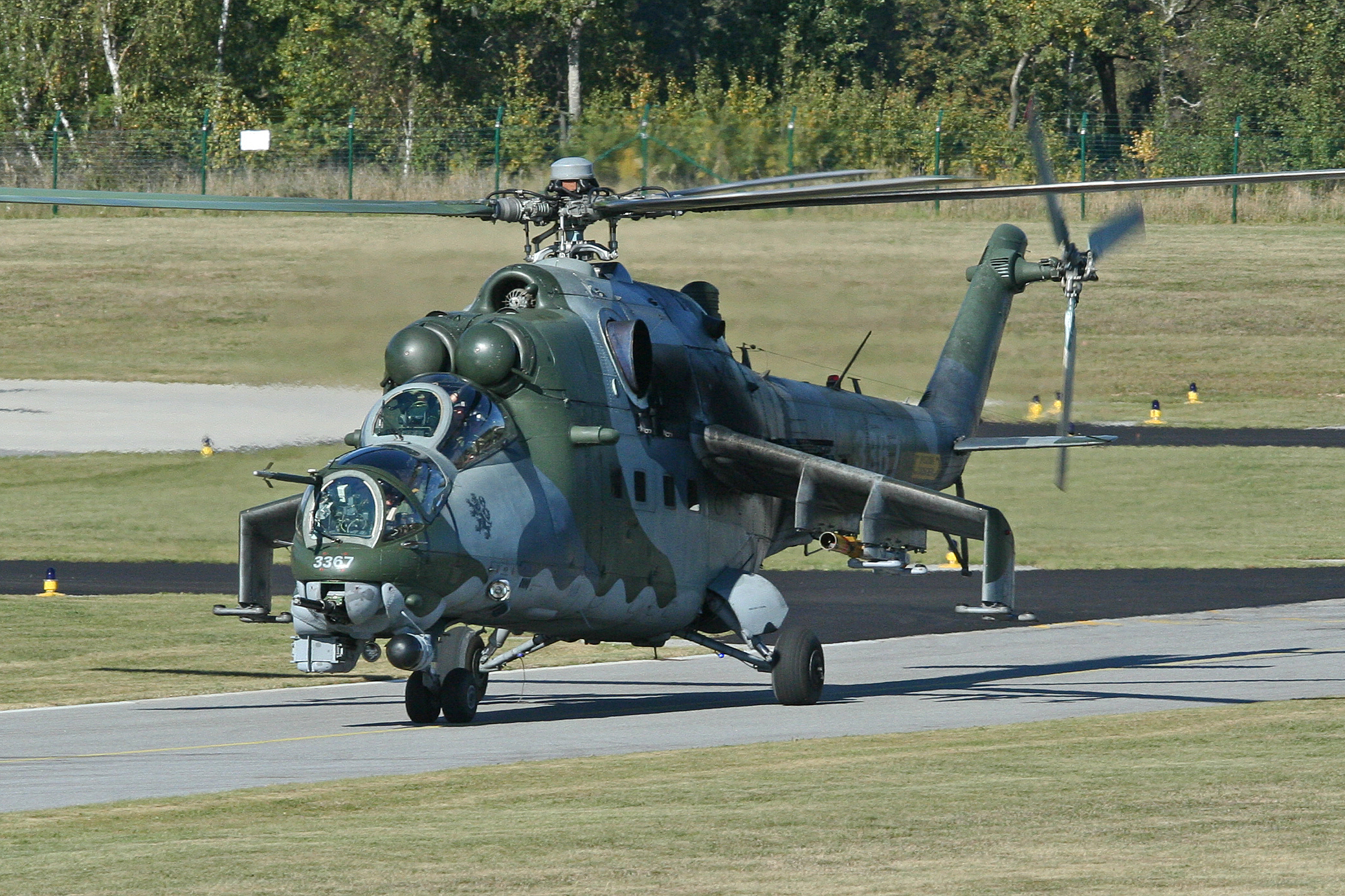 Taxiing out for it's display with Hind '3365'. msn 203367. Namest open day. Czech Republic. 06-10-2012